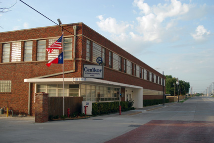 Cenikor long-term residential treatment facility in Fort Worth, TX